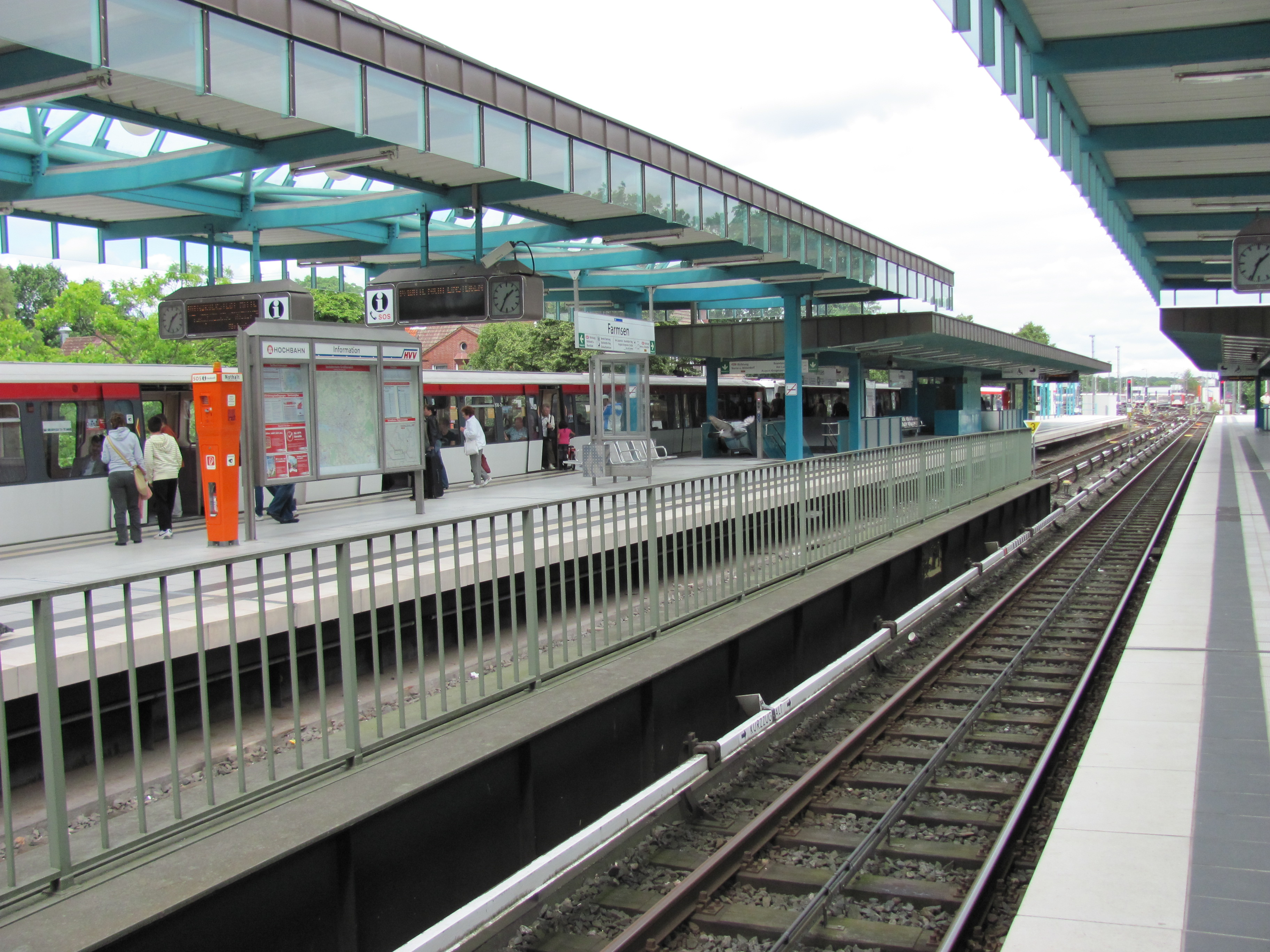 U-Bahn station Farmsen in Hamburg, Germany